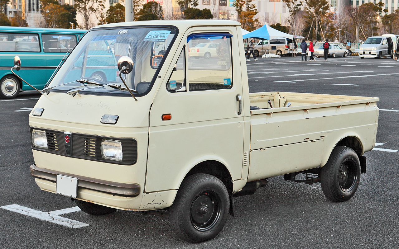 4th generation Suzuki Carry (L40, 1969-1972)